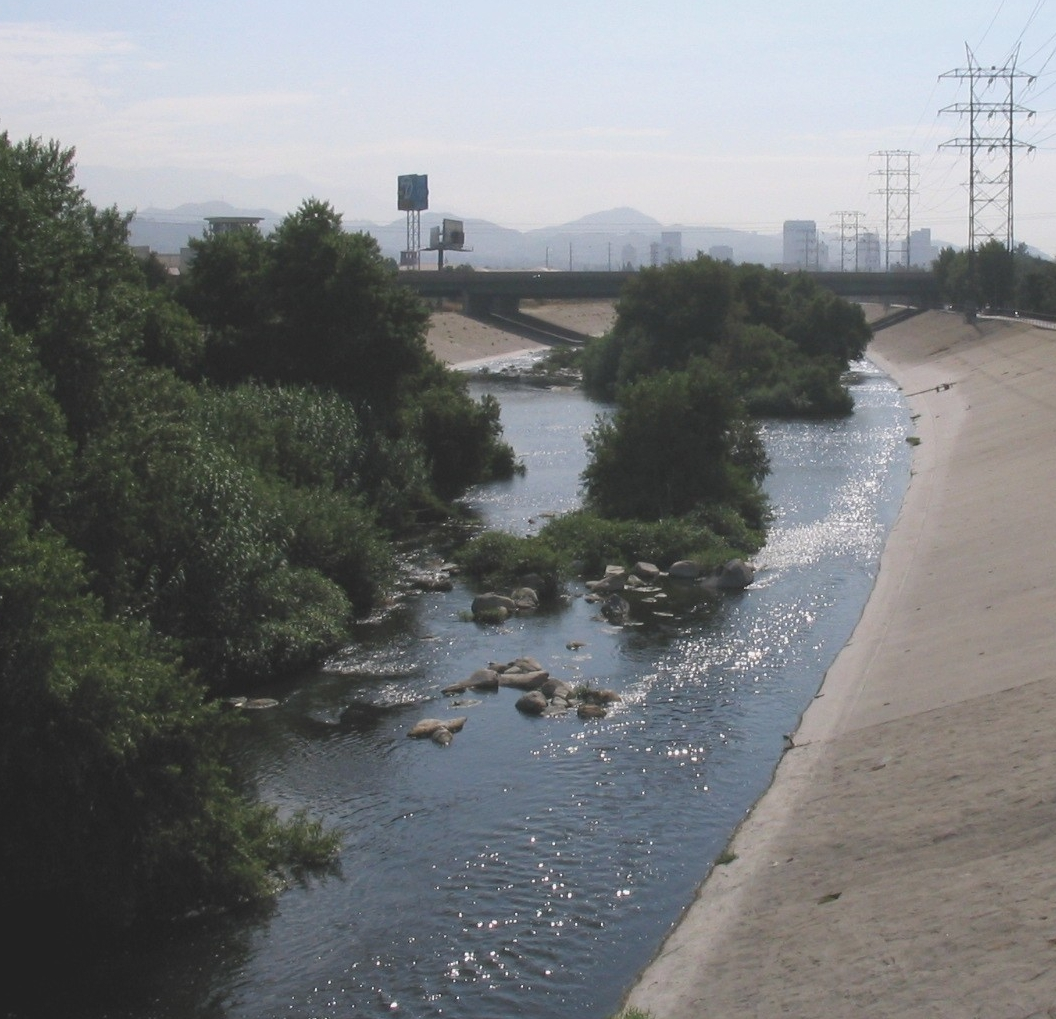 Los Angeles River, looking east, downstream, from the Riverside/Zoo Drive bridge. The bridge in the background is Interstate 5, and the office buildings are in downtown Glendale. This is one of the only parts of the river which does not have a concrete bottom.